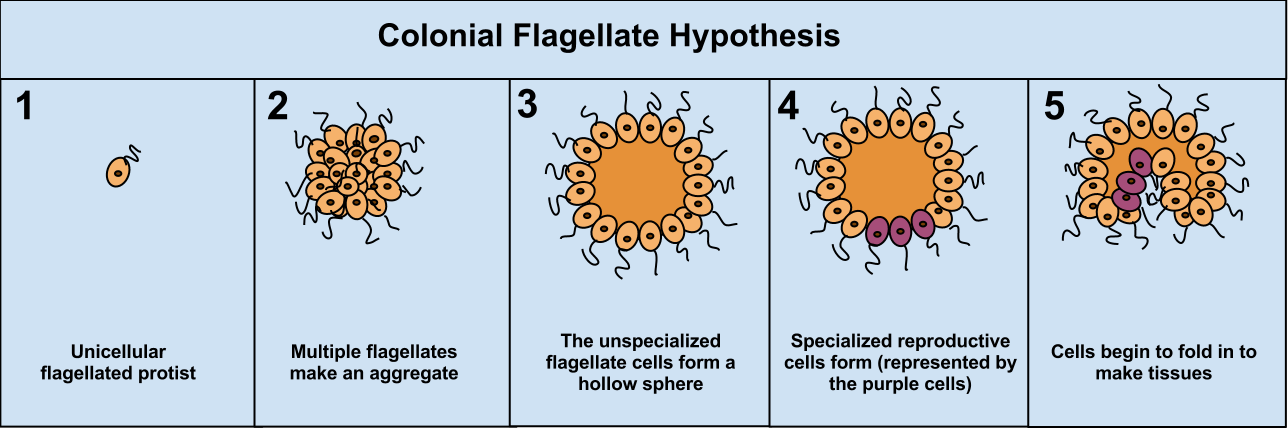 The Colonial Flagellate Hypothesis proposes that multicellular organisms evolved from a single flagellated cell. it is believed that a group of these unicellular flagellates combine to form an aggregate then form a sphere which develops specialized cells (such as reproductive cells), and then fold in on themselves to create a tissue layer.